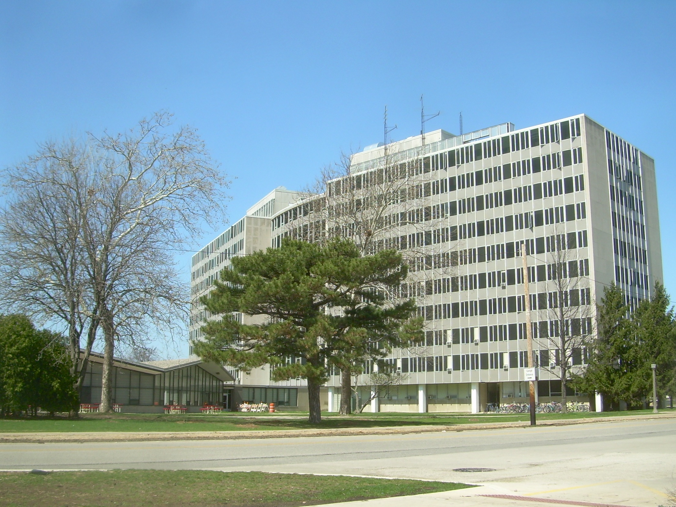 Hamilton and Whitten residence Halls and Feeny Dining Center. Illinois State University, Normal, Illinois.